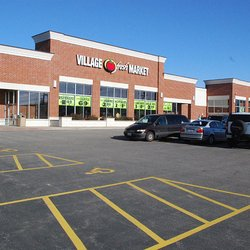 Village Fresh Market catering Mexican grocery goods to the Hispanic Community